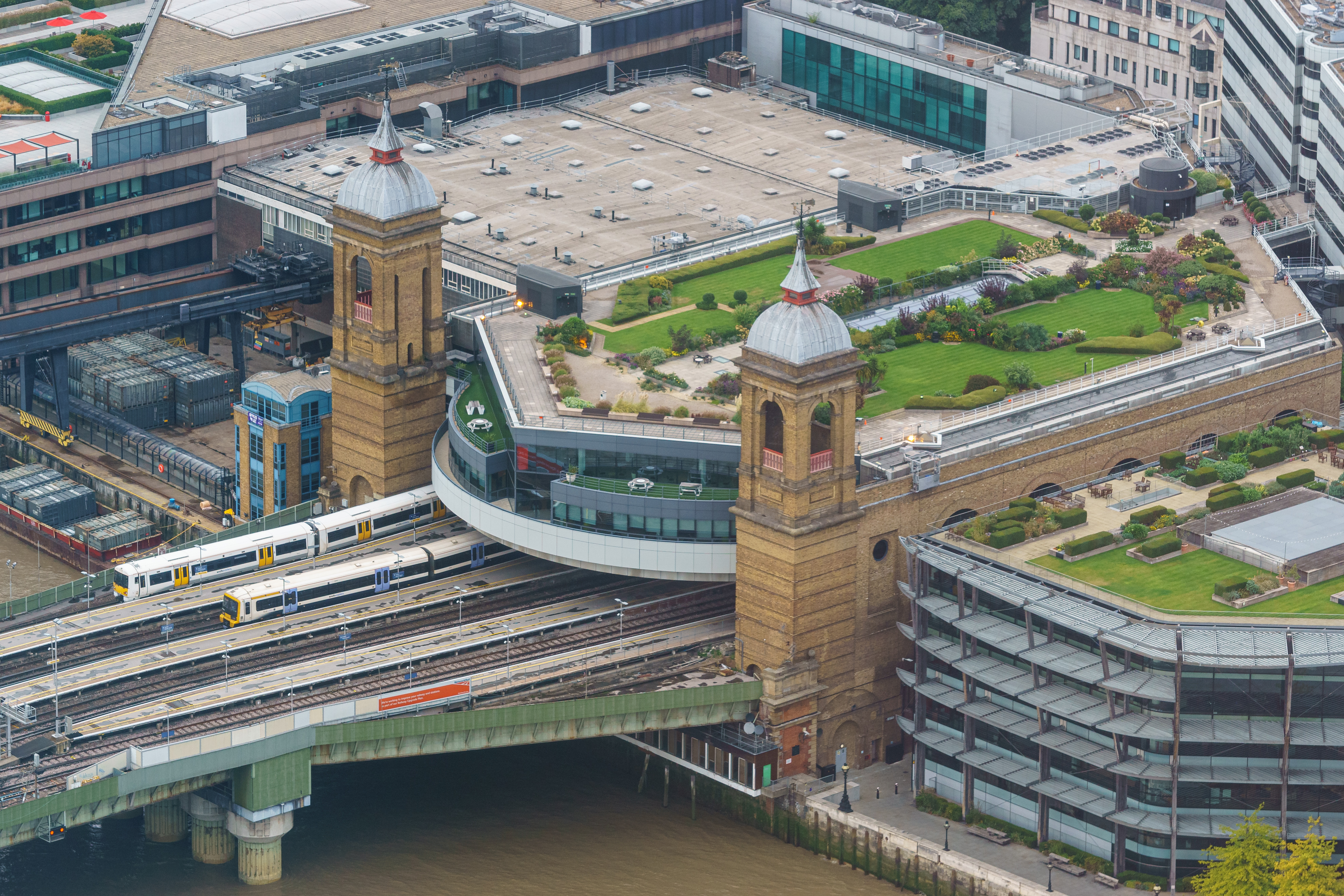 Cannon Street station viewed from The Shard, London Bridge